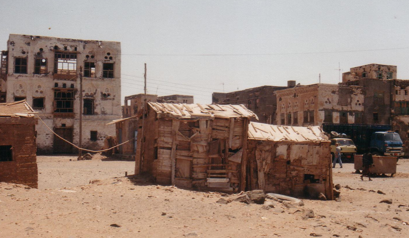 Mocha, Yemen, 1996